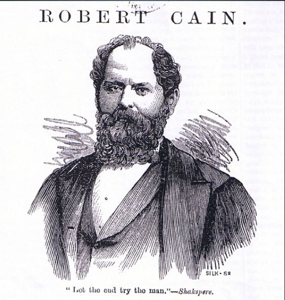 Robert Cain, brewer. From The Liverpool Review, September 17, 1887.